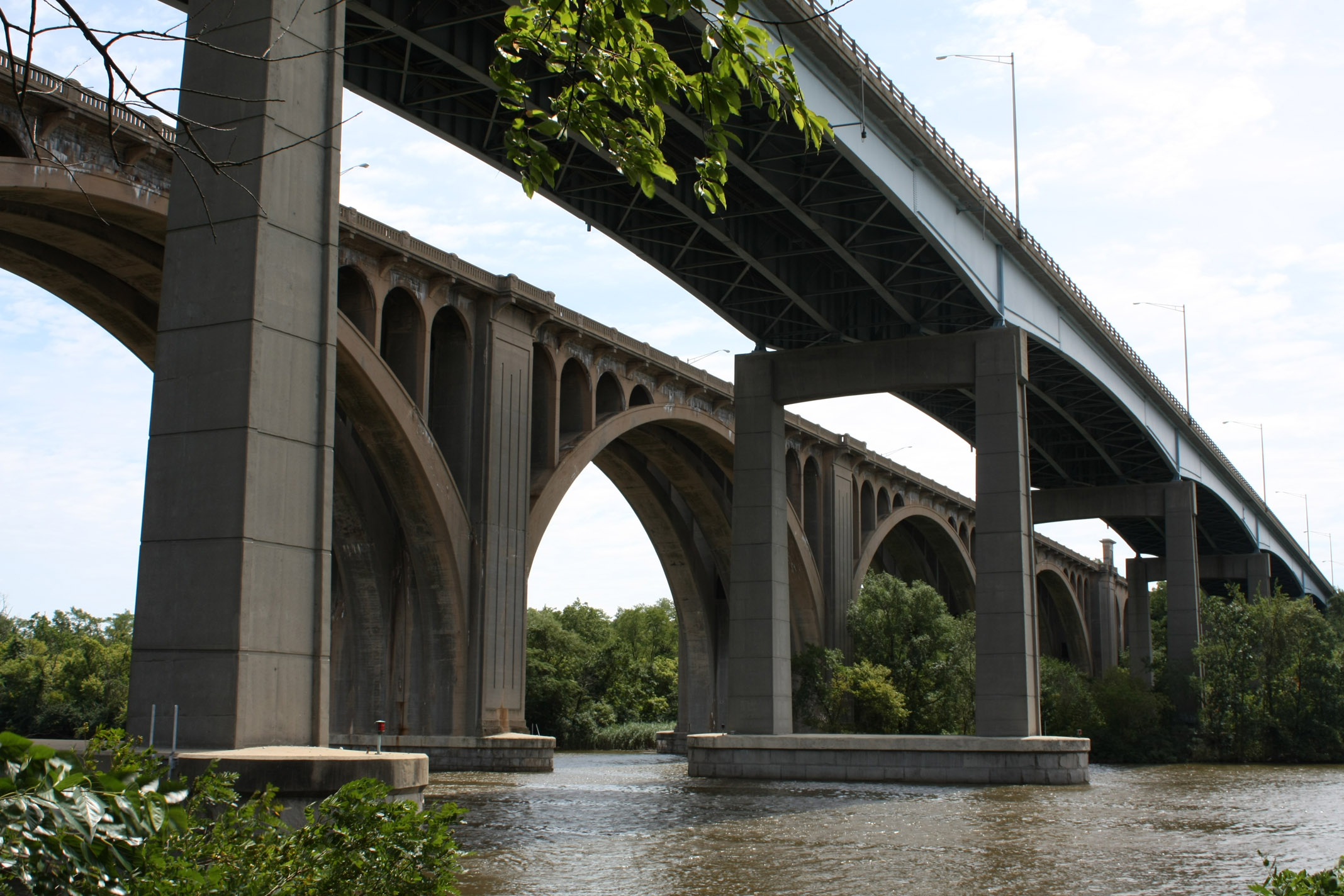 Donald and Morris Goodkind bridges between Edison and New Brunswick, New Jersey